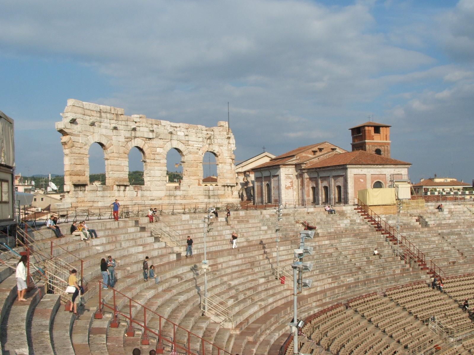 Arena di Verona- gradinate